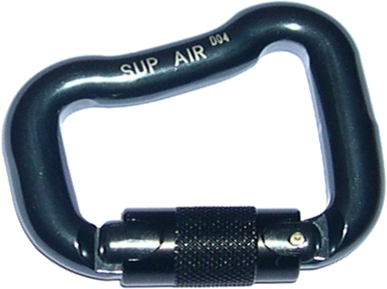 Carabiner for paraglider